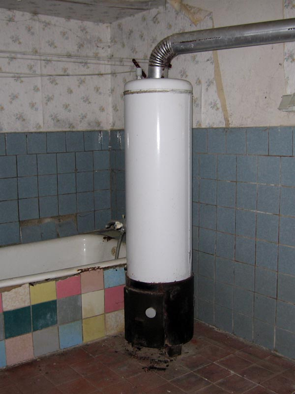 hot-water heater